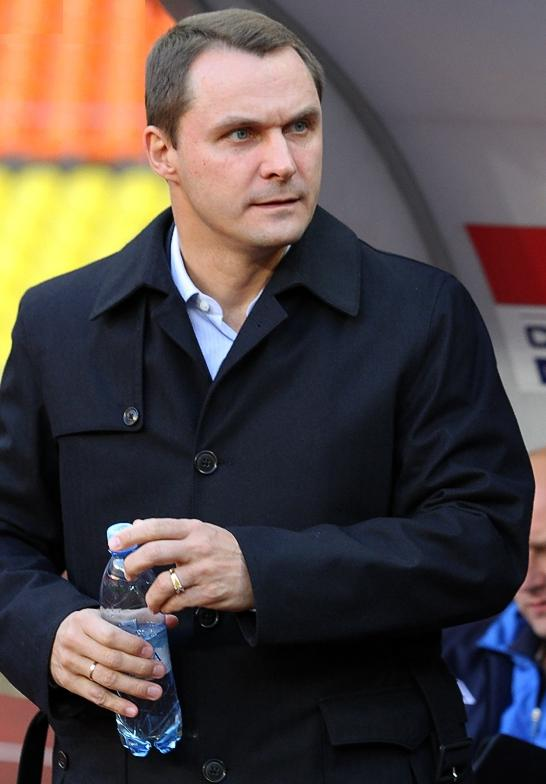 Andrei Kobelev coaching FC Krylia Sovetov Samara in 2011.